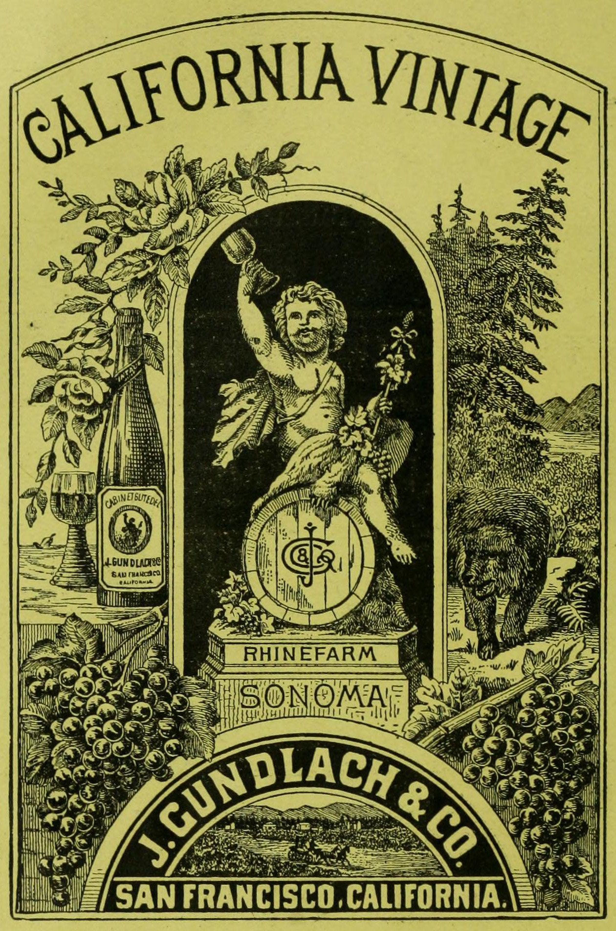 Advertising cut from an 1889 directory, showing an early advertisement for California wine, specifically that of J. Gundlach & Co.(cropped)